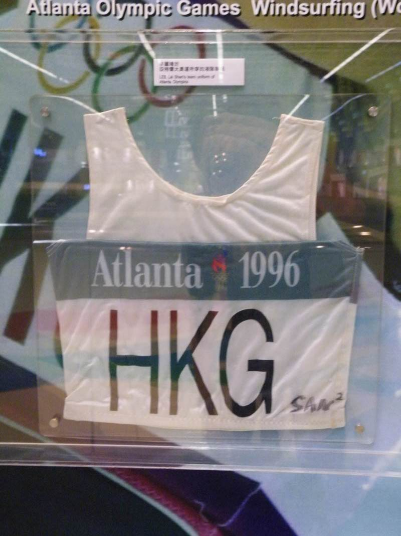 The 2009 East Asian Games Gallery - Lee Lai Shan's jacket in 1996 Summer Olympics.